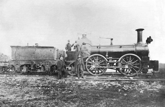 Photograph of Manchester & Leeds Railway engine 'Victoria'